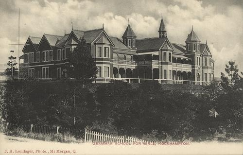 Postcard of Rockhampton Girls' Grammar School taken ca.1895 by J. H. Lundager